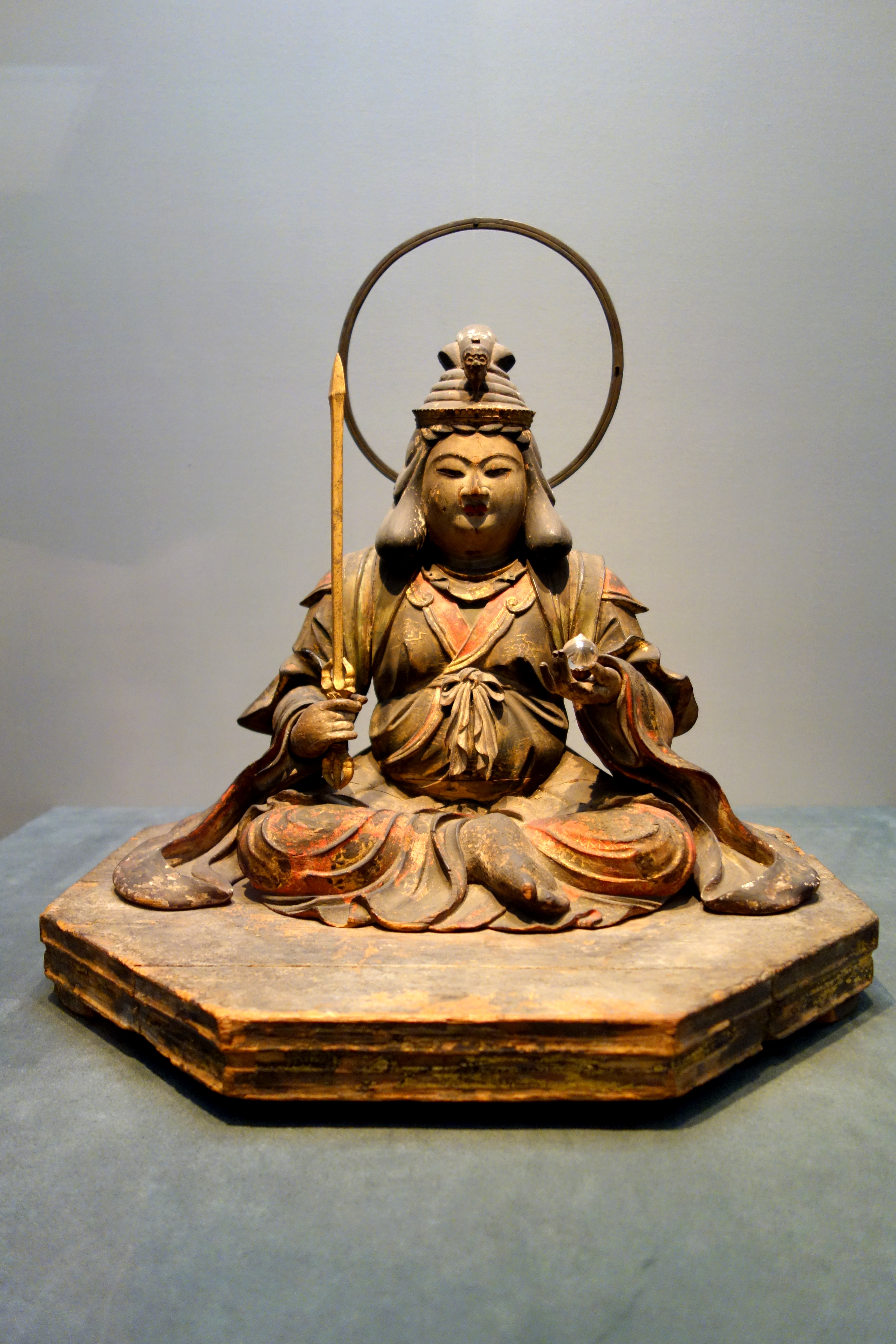 Exhibit in the Tokyo National Museum, Tokyo, Japan. This artwork is old enough so that it is in the public domain.宇賀神を載せた弁財天座像。木造、彩色、截金、玉眼。鎌倉時代、13世紀。個人蔵。東京国立博物館展示時の解説によると、とぐろを巻いた蛇のからだに老人の顔をつける宇賀神を頭上に頂く弁財天像。宇賀神は食物の神。宇迦之御魂神として『古事記』にも登場する。弁財天を福徳・財宝の神とする弁財五部経にこうした姿が説かれる。宇賀神が造立当初のまま残る最古の作例。